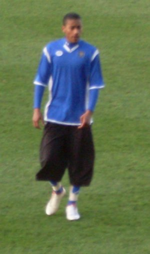 Chris Humphrey warming up before a match. Picture taken by 03x072 on January 5, 2008. To be added to Chris Humphrey.